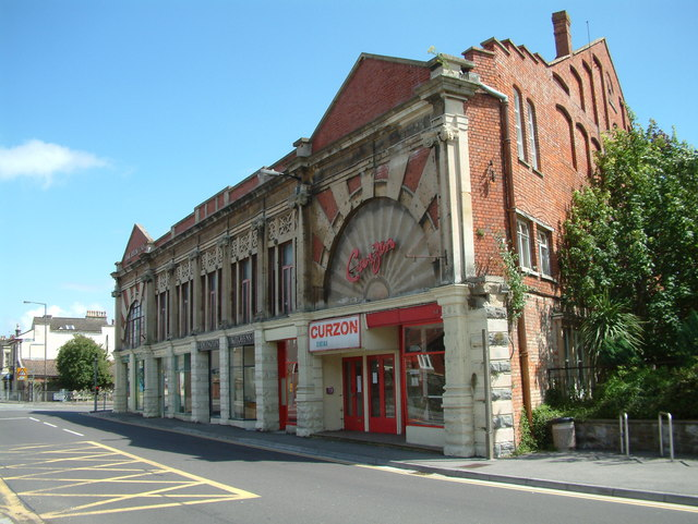 Clevedon - The Curzon Community Cinema, Old Church Road. The oldest, purpose-built, continuously operated cinema in the World